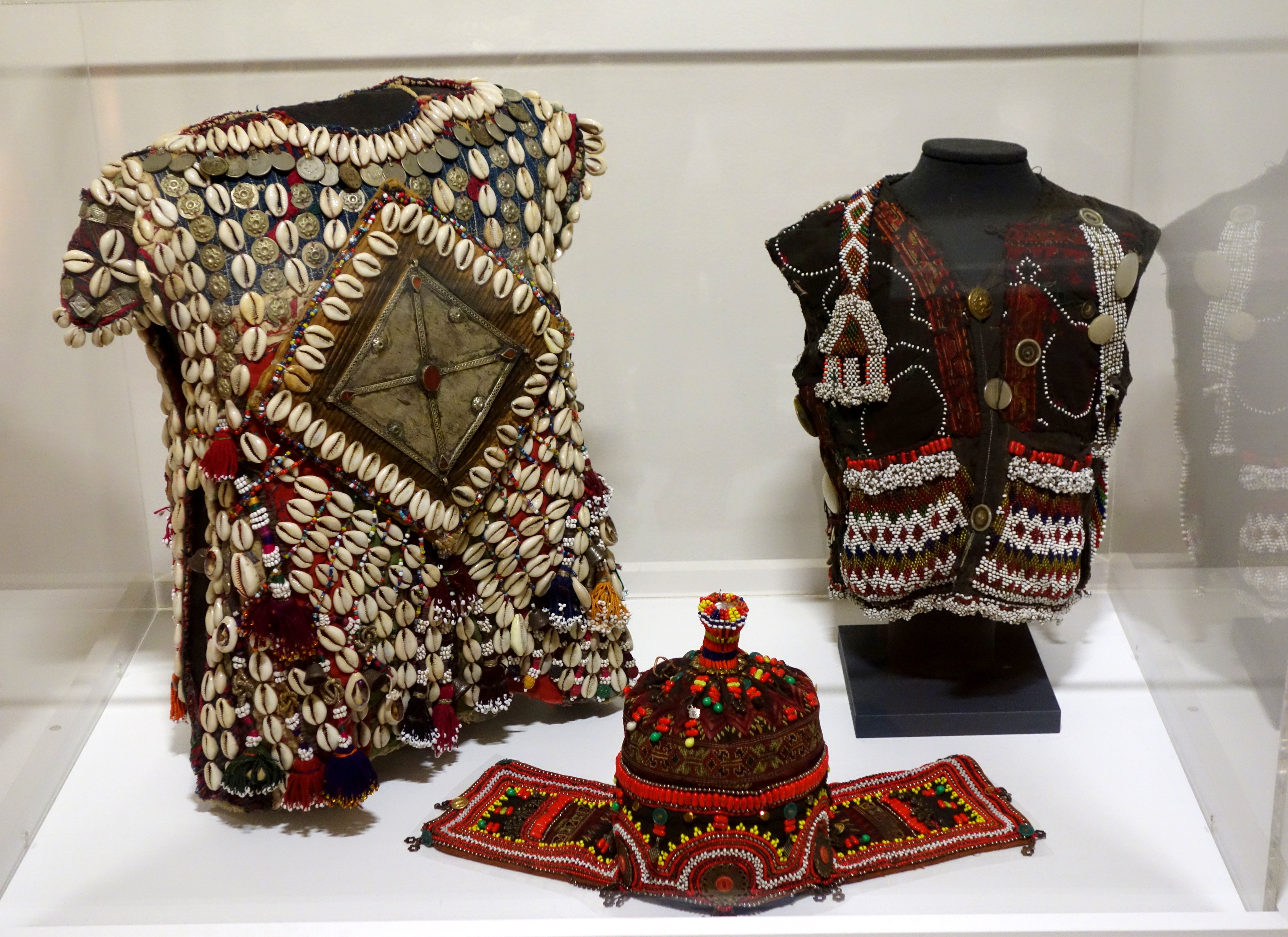 Exhibit in the Textile Museum of Canada, 55 Centre Avenue, Toronto, Ontario, Canada.